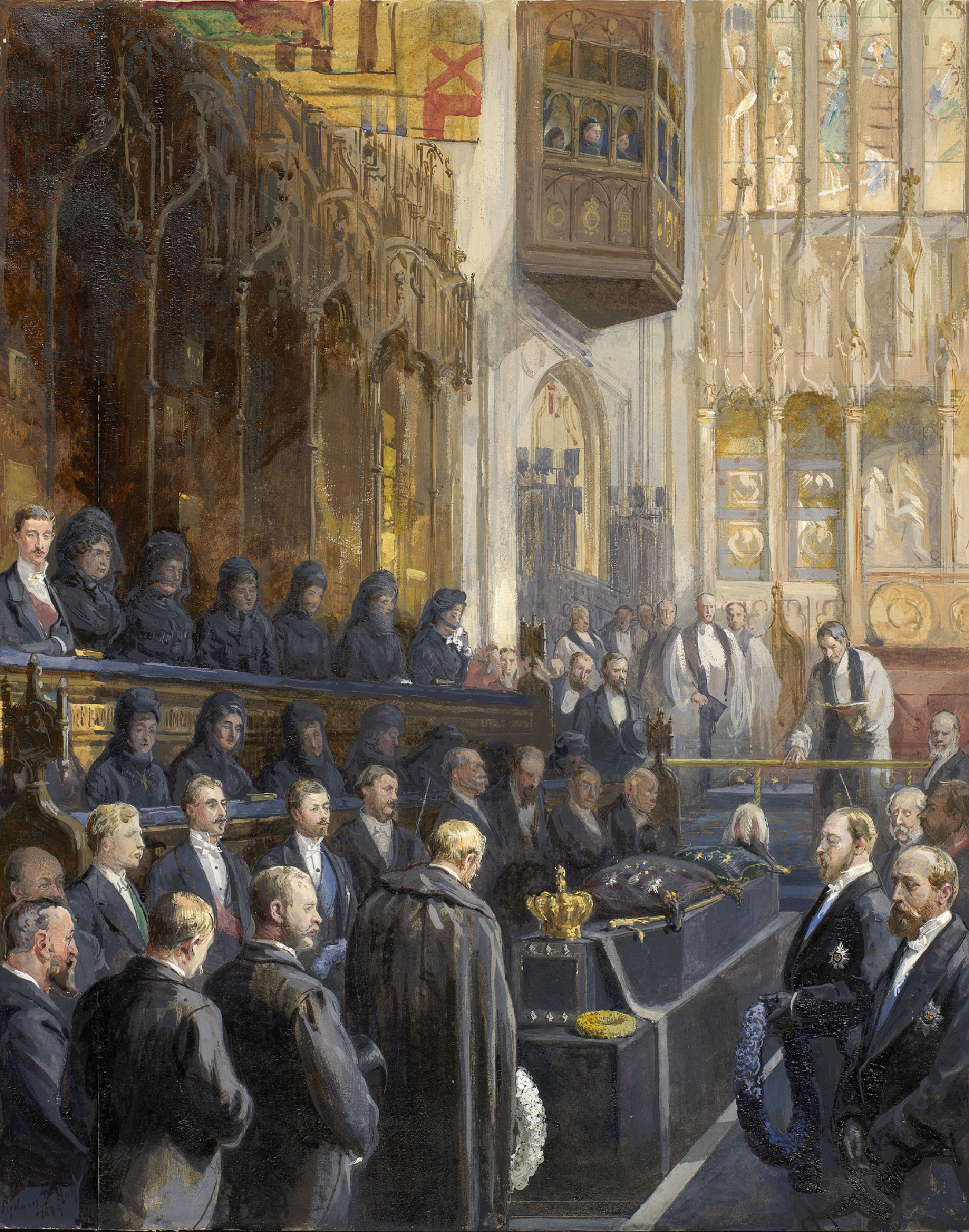 Funeral of King George V of Hanover, St George's Chapel, Windsor